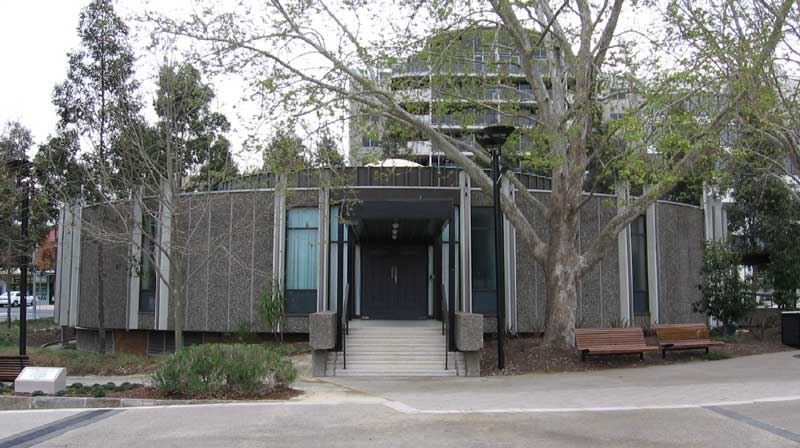 Photo taken by myself on 3 September 2005.